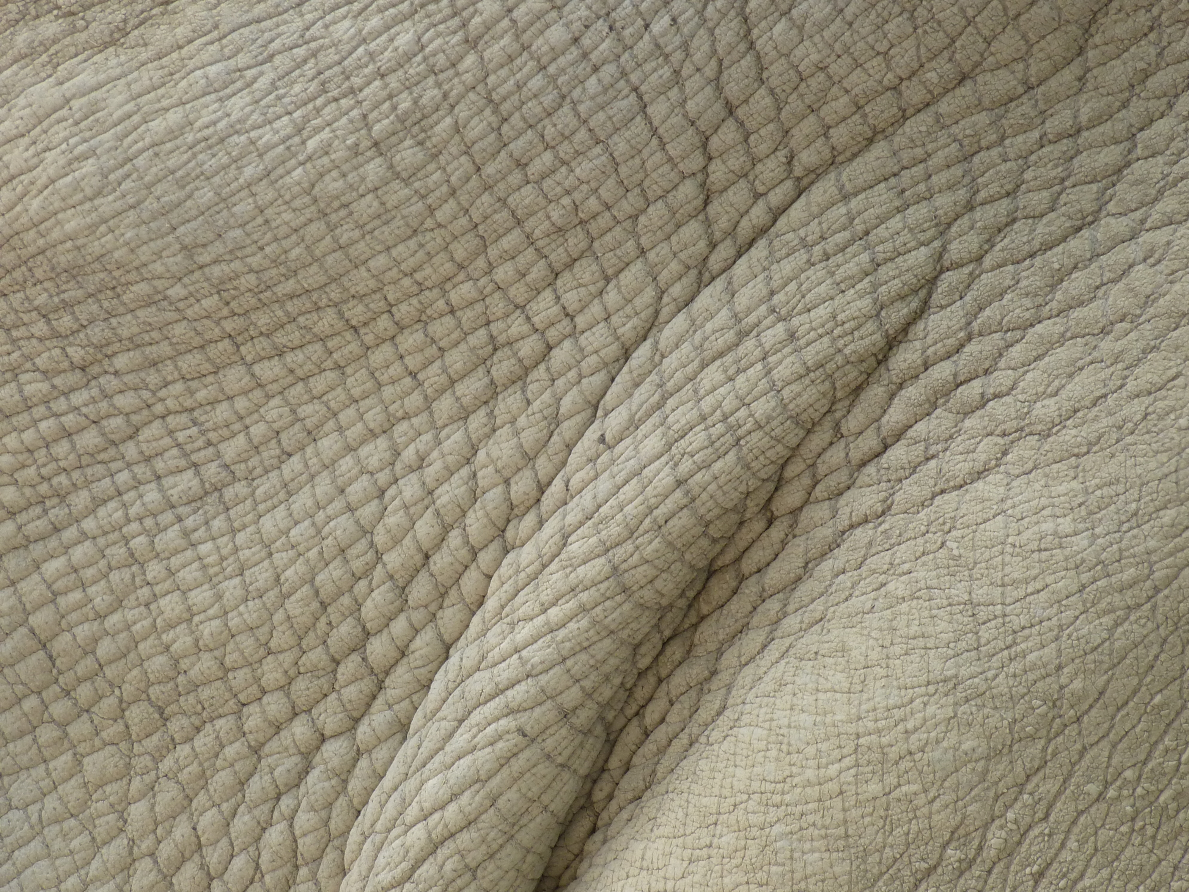 Ceratotherium simum, skin, in Lisbon Zoo. Portugal